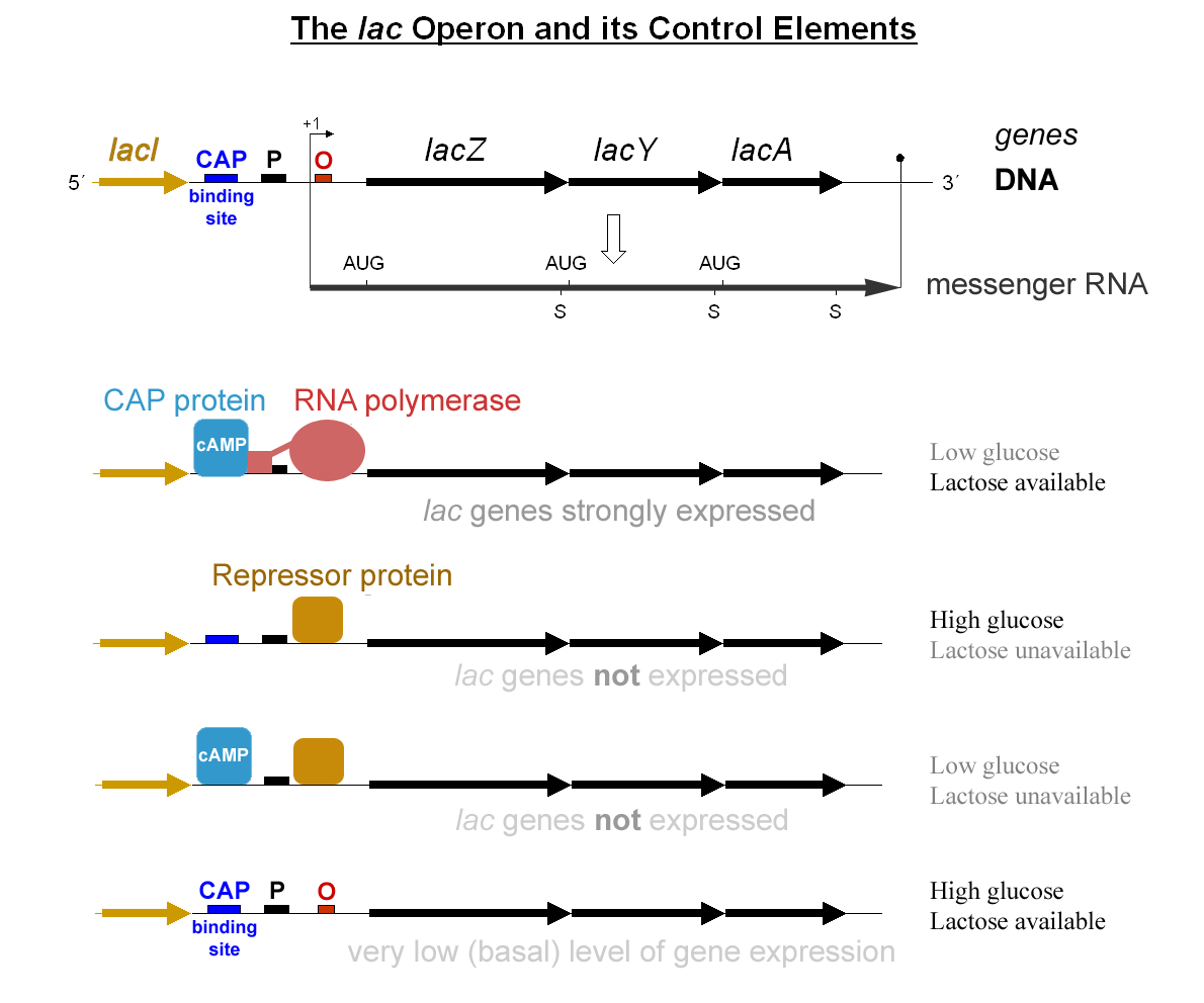 Image from English Wikipedia ( with the text: Diagram of the Lac Operon. I made this image using Adobe Photoshop 7.0. I release this image for Wikipedia under the Creative Commons 2.0 liscense. --G3pro 18:20, 4 Dec 2004 (UTC)